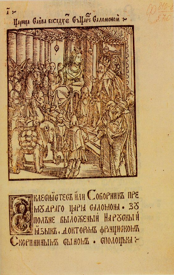 Image from "Ecclesiastes" of Francysk Skaryna 1518